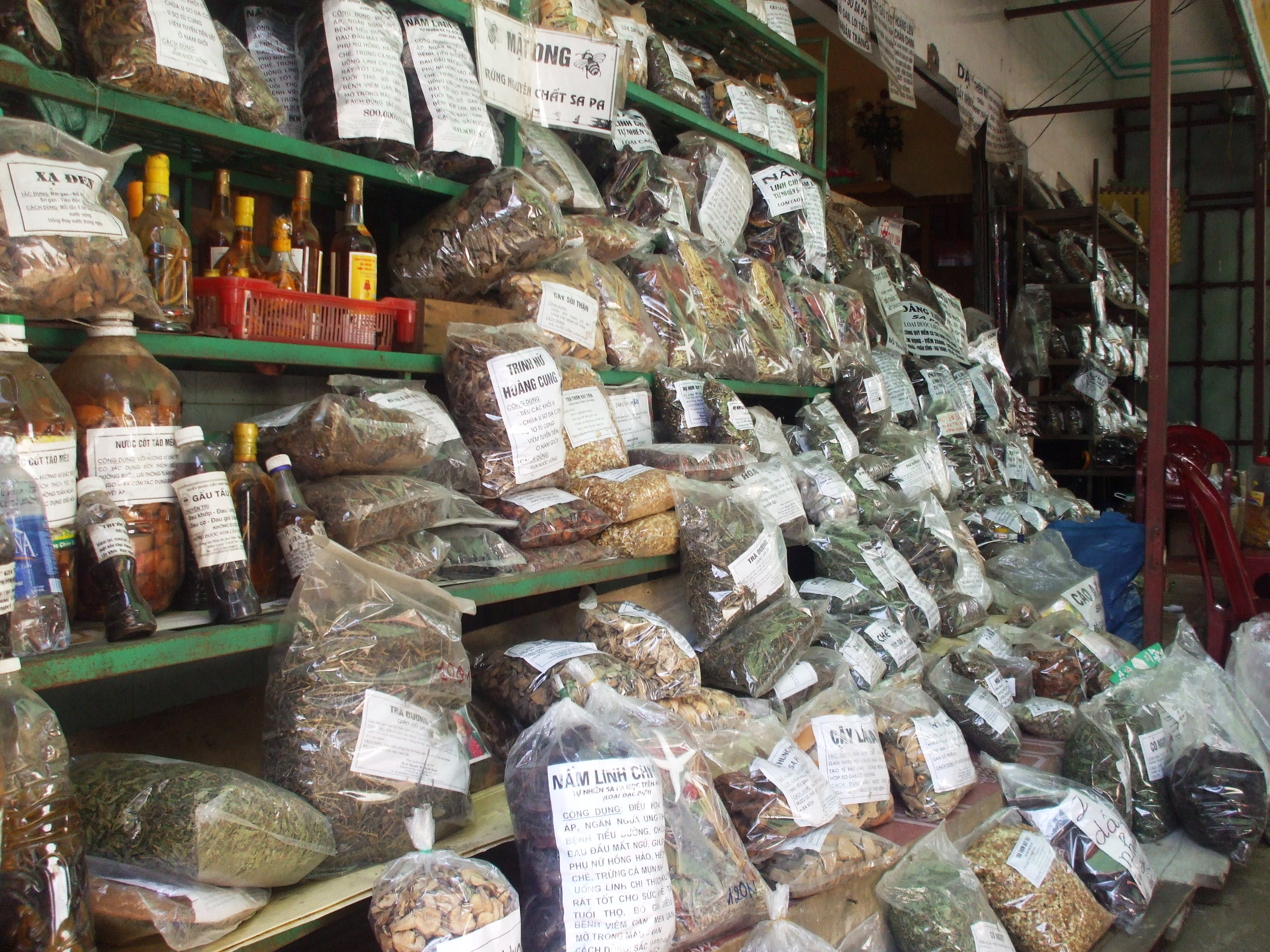 A male drug store in Sa Pa (Lao Cai, Vietnam). (rough translation)